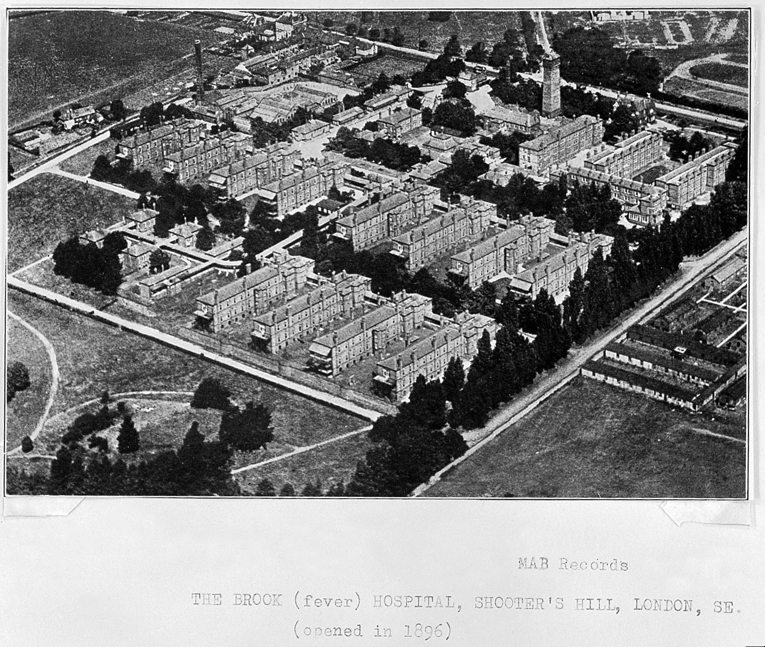 The Brook (Fever) Hospital at Shooters Hill. General Collections Keywords: Institutions